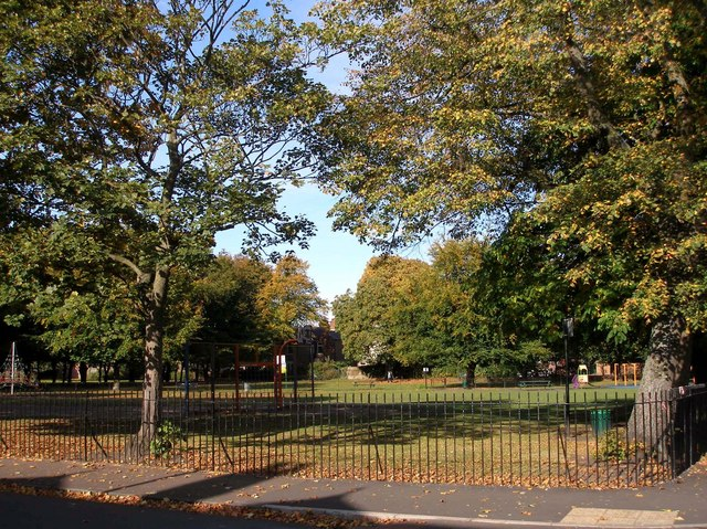 Beech Road Park Beech Road Park. Photo taken from the corner of Beech Road & Beaumont Road.